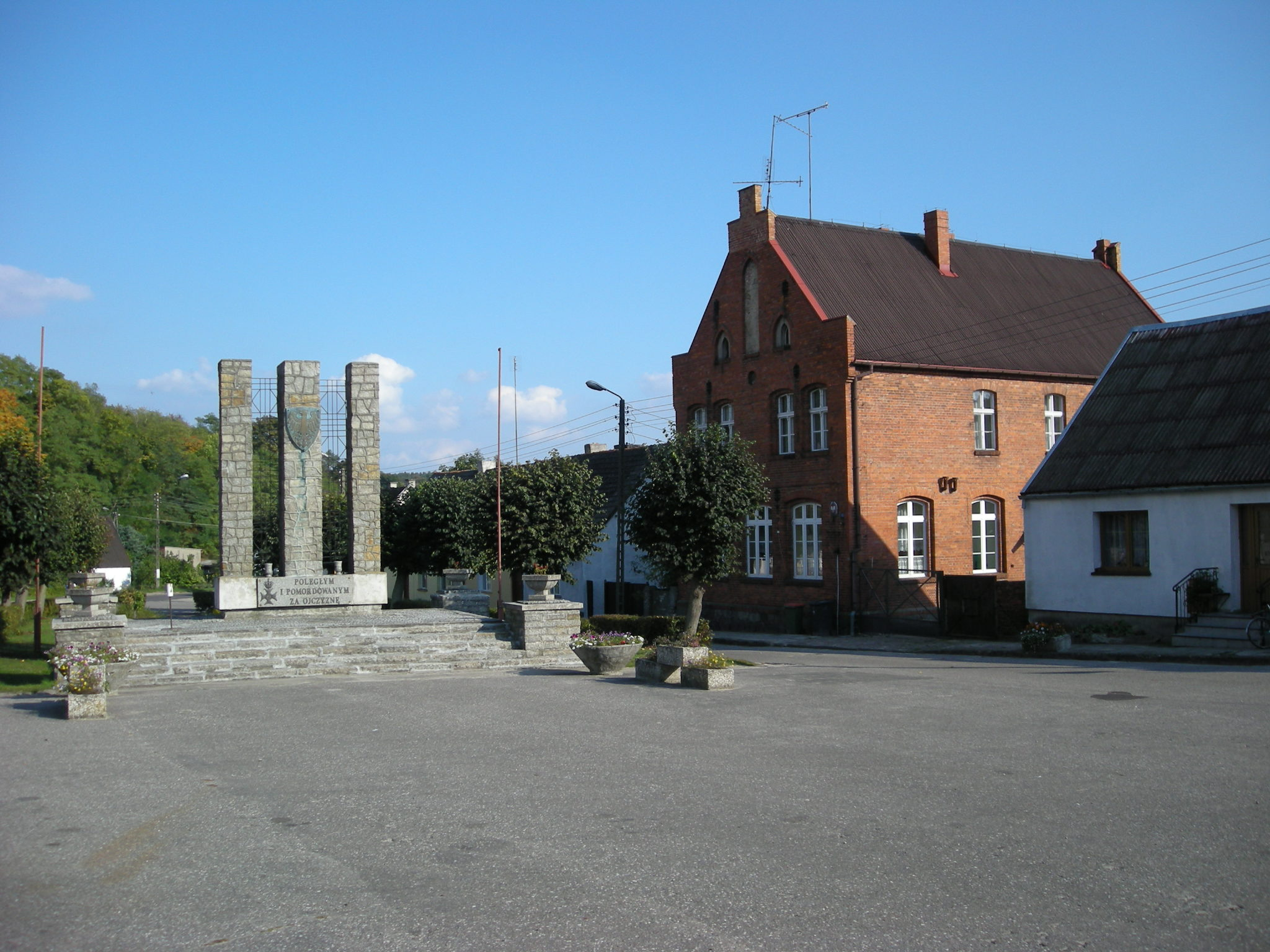 The centre of Miasteczko Krajeńskie, Poland.